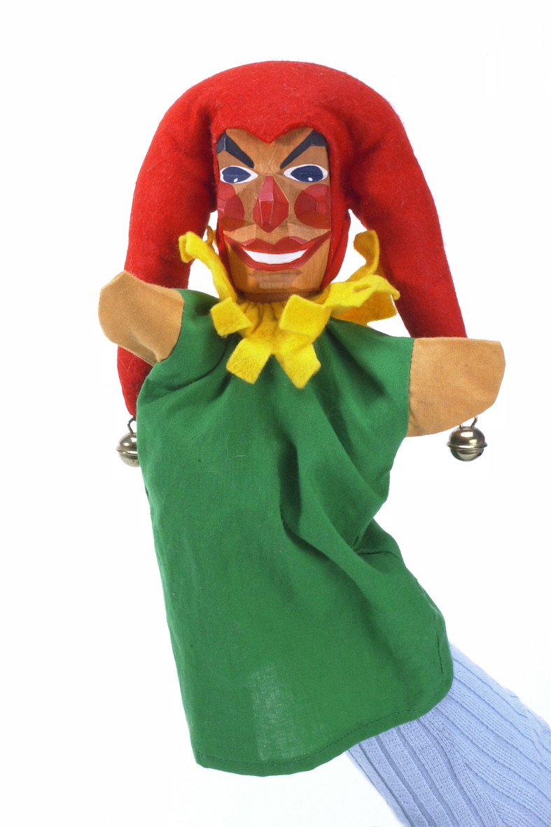 hand puppet - traditional Kasperle figure from Germany and Austria